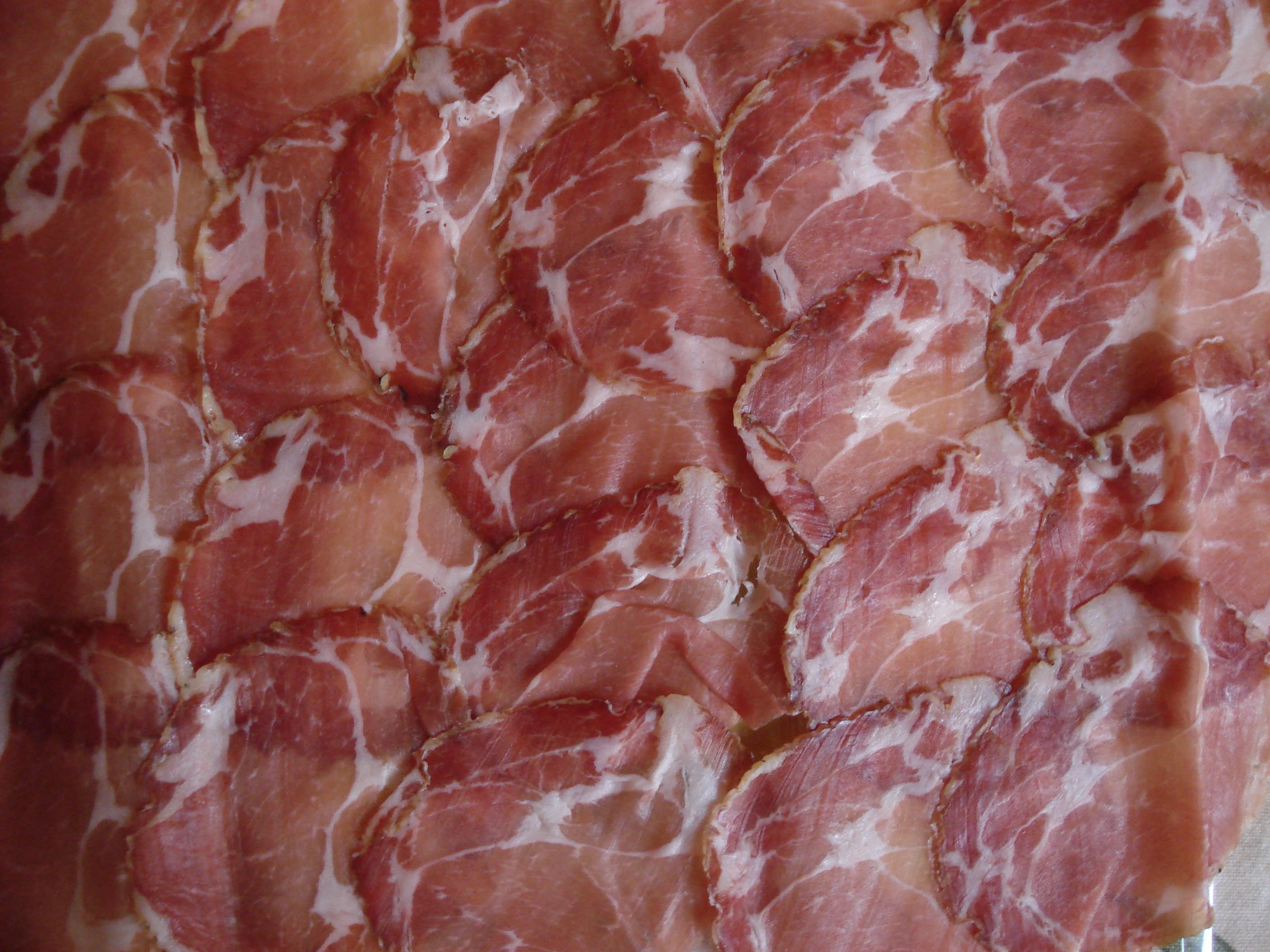 Capicola (also known as Coppa)